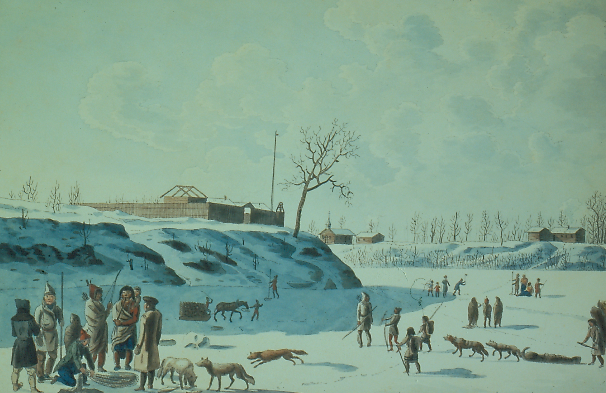 Rindisbacher, Winter Fishing on the Ice of the Assynoibain and Red River, watercolour, 1821. (Note: Peter Rindisbacher's watercolour appears to show Fort Garry (Fort Gibraltar) and an early St. Boniface church at the forks of the frozen Red and Assiniboine rivers)